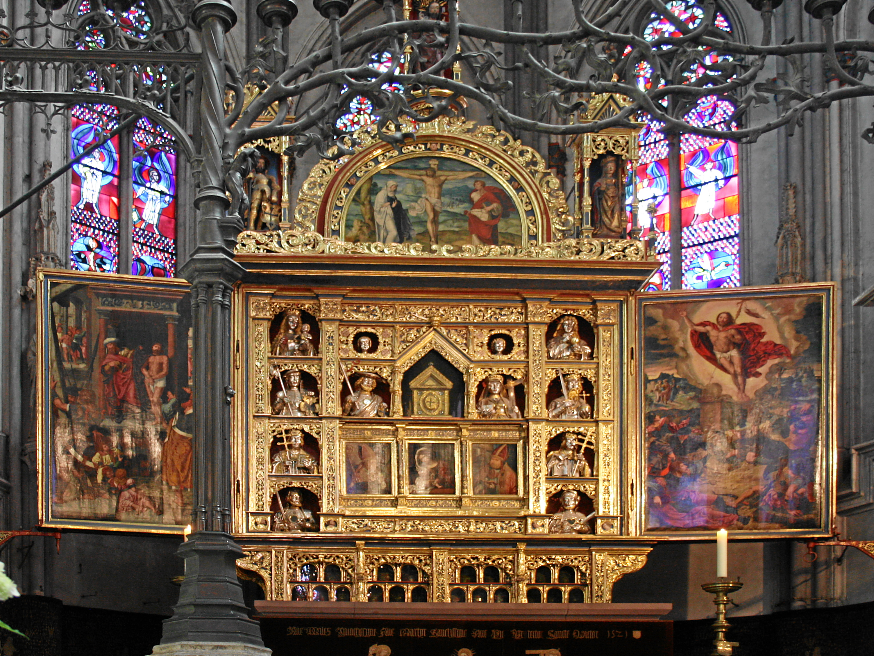 Xanten, Germany. Catholic church St. Viktor, main altar.